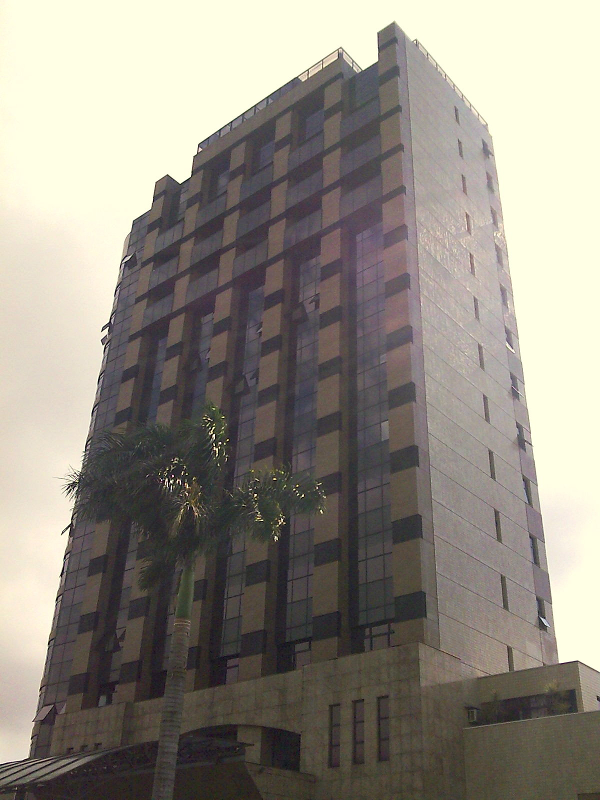 The luxurious Marques Plaza Hotel in Pouso Alegre, Brazil.